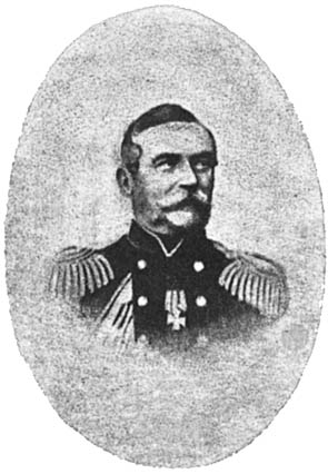 Launitz von der, Vasily Fyodorovich.